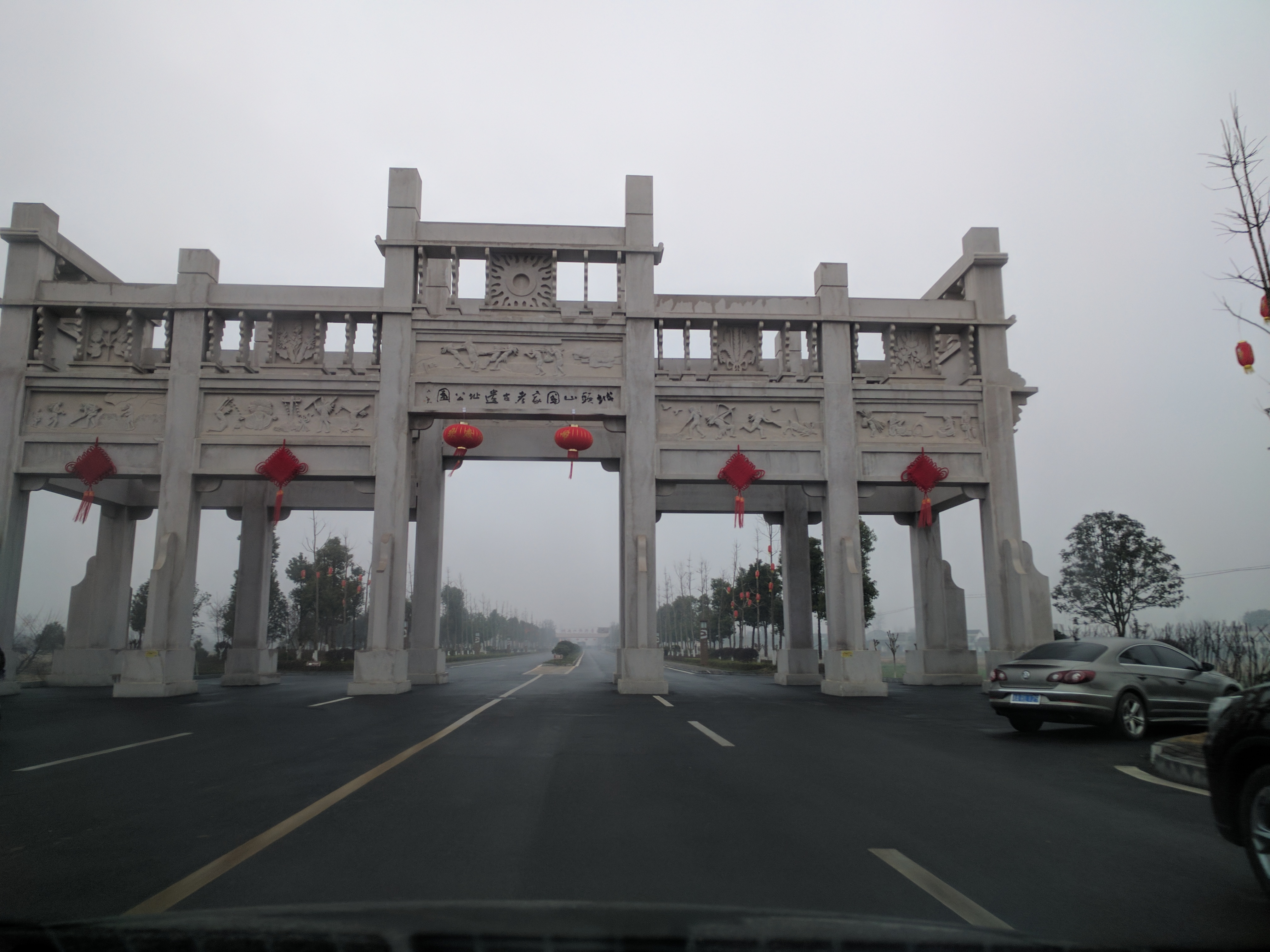 The Front Gate of The Chengtoushan Ruin